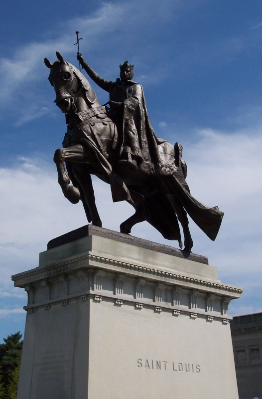 This statue of King Louis IX of France, the namesake of St. Louis, Missouri, is located in front of the Saint Louis Art Museum. The image of this statue of the king on a horse was widely used as a graphical symbol of the City of St. Louis. It is sometimes still used as such, though the Gateway Arch has mostly assumed that role. The original plaster model for this statue stood at the entrance to the 1904 Worlds Fair in Forest Park. After the fair the statue was cast in bronze by the Louisiana Purchase Exposition Company and presented to the city as part of the restoration of the park after the fair. The statue was cleaned in 1977 and restored in 1999. The inverted sword, held up as a cross, was replaced after being broken or stolen in 1970, 1972, 1977, and 1981.[1]